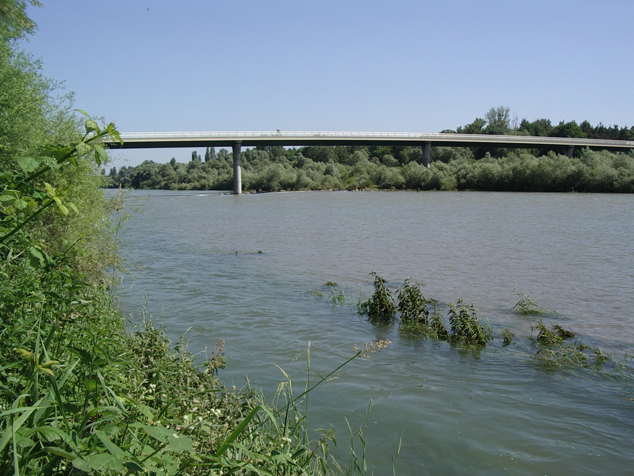 Bridge over the Rhine near Fessenheim